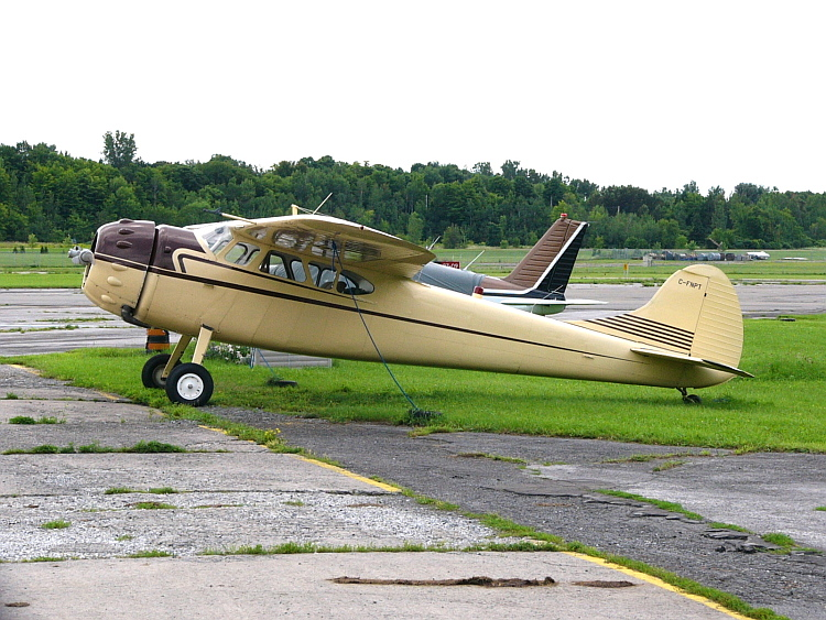 I took this photo of Cessna 190 C-FNPT at Rockcliffe Airport on 03 August 2008.